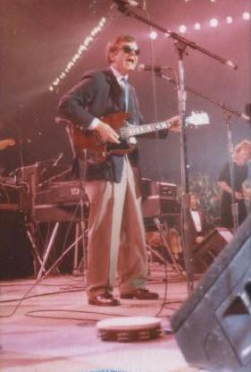 PRESIDENT AND MRS. BUSH ATTEND THE CELBRATION FOR YOUNG AMERICANS AT THE D.C. ARMORY. THE PRESIDENT PLAYS THE GUITAR WITH LEE ATWATER. THE GUITAR SAYS 'THE PREZ' ON IT (JUMBO P142-22). FAMILY MEMBERS AND CORETTA SCOTT KING ARE PRESENT.